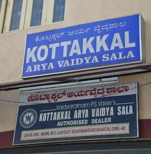 Kottakkal is a popular house of Ayurvedic Medicine. Pictured is the 'Arya Vaidya Shala'. Several Ayurvedic Doctors now prescribe Kottakkal medicine here in India.